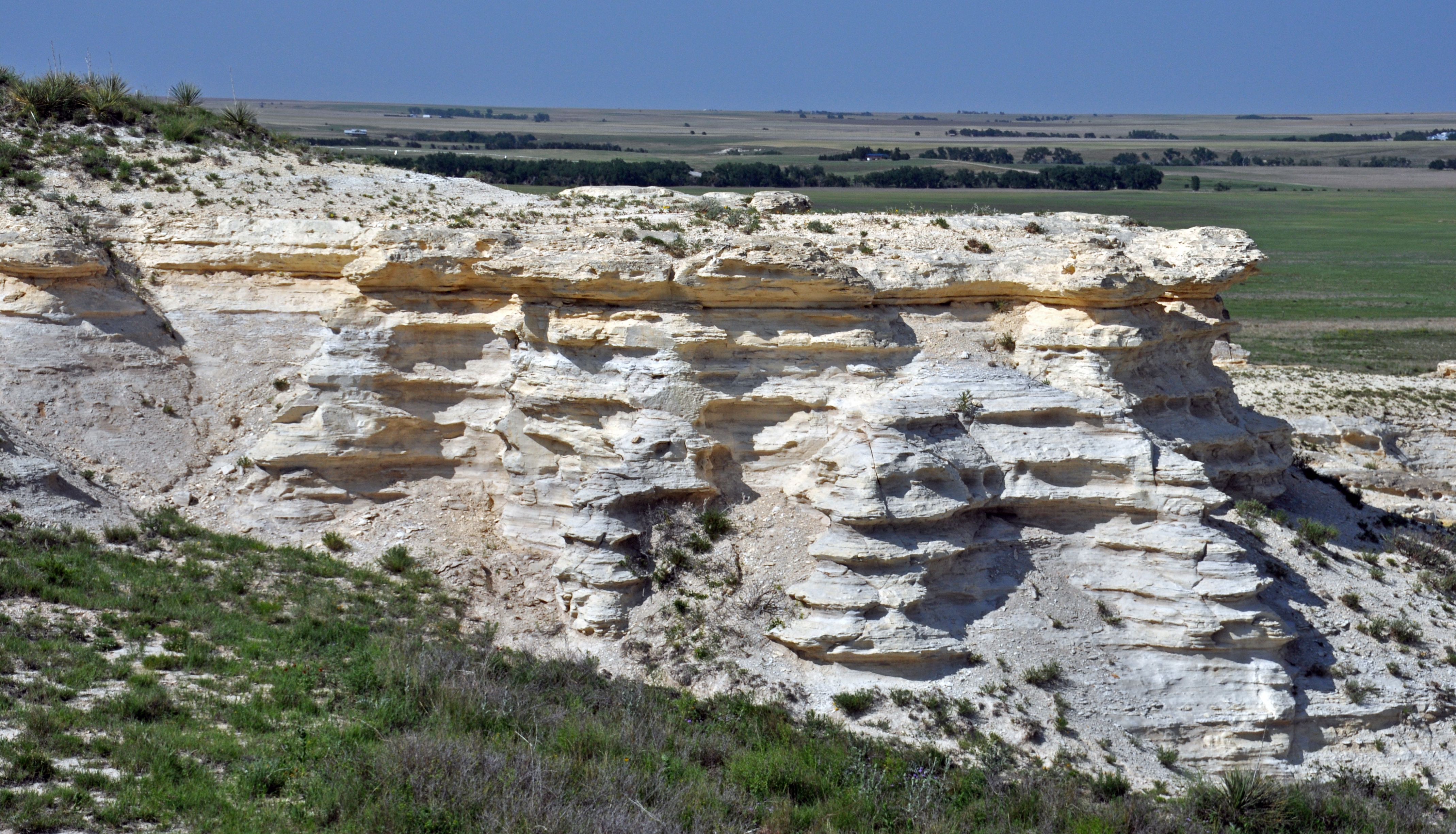 Chalk in the Cretaceous of Kansas, USA. These are chalk outcrops near Castle Rock, a famous cluster of chalk pillars south of Quinter, Kansas. Chalk is a biogenic, calcitic, marine sedimentary rock composed of numerous coccolith microfossils . Coccoliths are individual calcareous plates that covered a single-celled, photosynthesizing marine organism called a coccolithophorid (a.k.a. coccolithophore; "coccolithophorid" is not an adjective, contra Wikipedia) (see: ). Most chalks are Cretaceous in age ("creta" means "chalk"). The most famous example is the White Cliffs of Dover, along the southern shore of Britain. Weathered chalks in western Kansas range in color from white to pale yellowish to pale grayish. The rhythmic layering seen here is likely the result of Milankovitch cyclicity (see: and ). Stratigraphy: Smoky Hill Chalk Member (a.k.a. Smoky Hills Member), Niobrara Formation, Upper Cretaceous Locality: bluffs adjacent to Castle Rock, north of Gove County Road K & east of Castle Rock Road, 23 kilometers south-southeast of the town of Quinter, eastern Gove County, western Kansas, USA